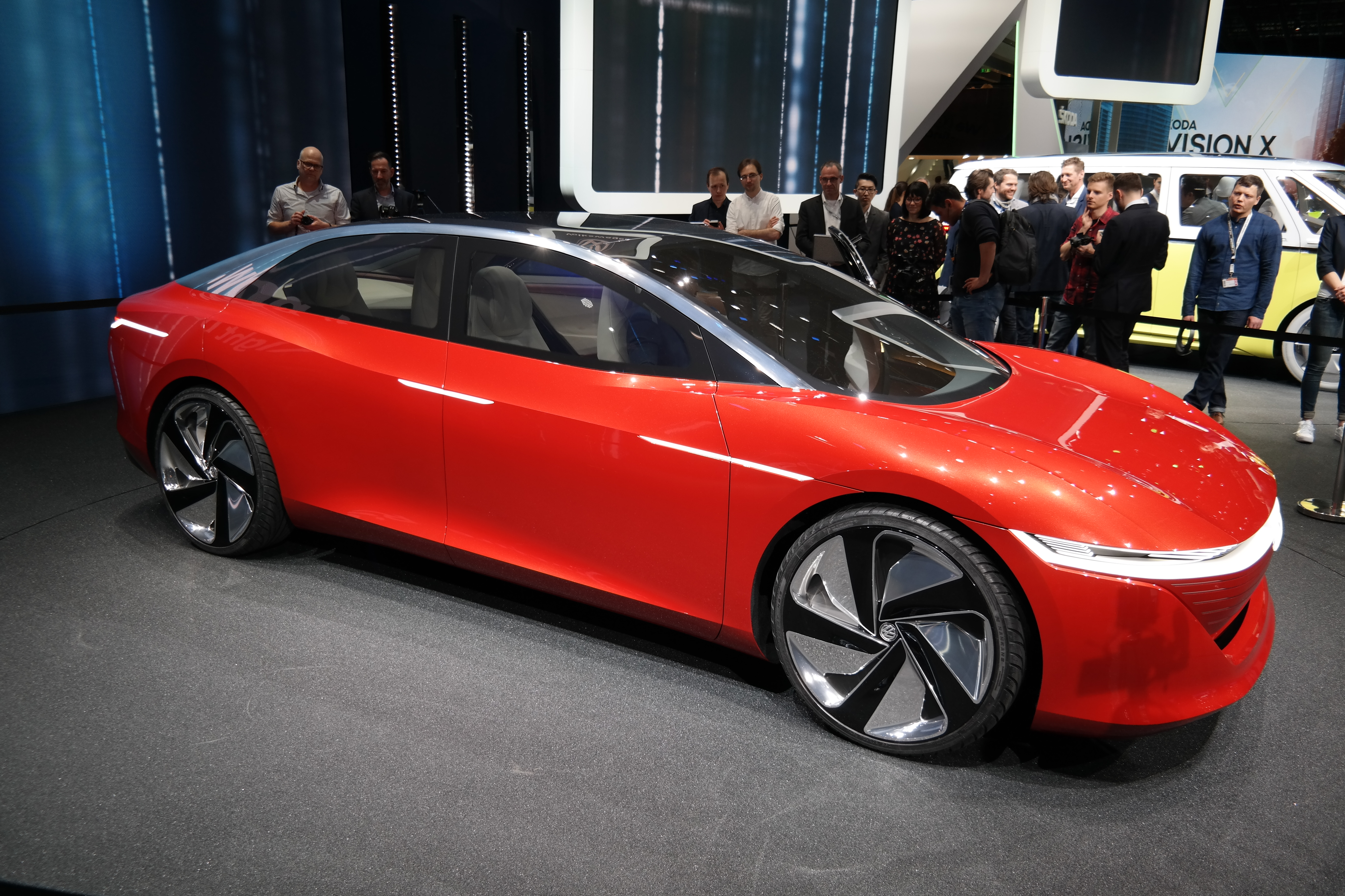 Geneva Motor Show 2018 (photo taken on the first press day)